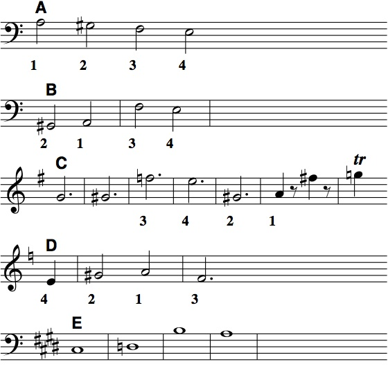 Complement to A. David Hogarth notes to the recording of all late quartets by the Quartetto Italiano